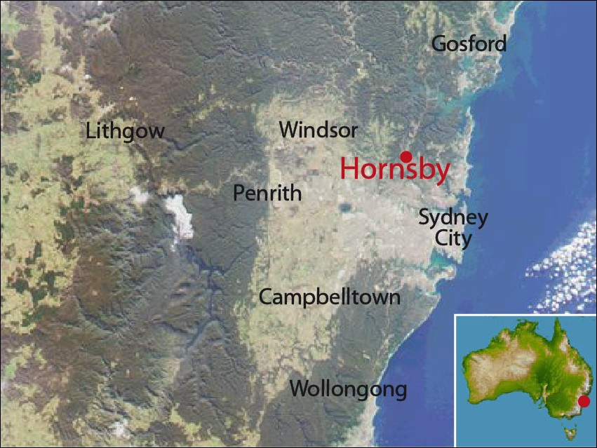 Map of Sydney, highlighting location of Hornsby